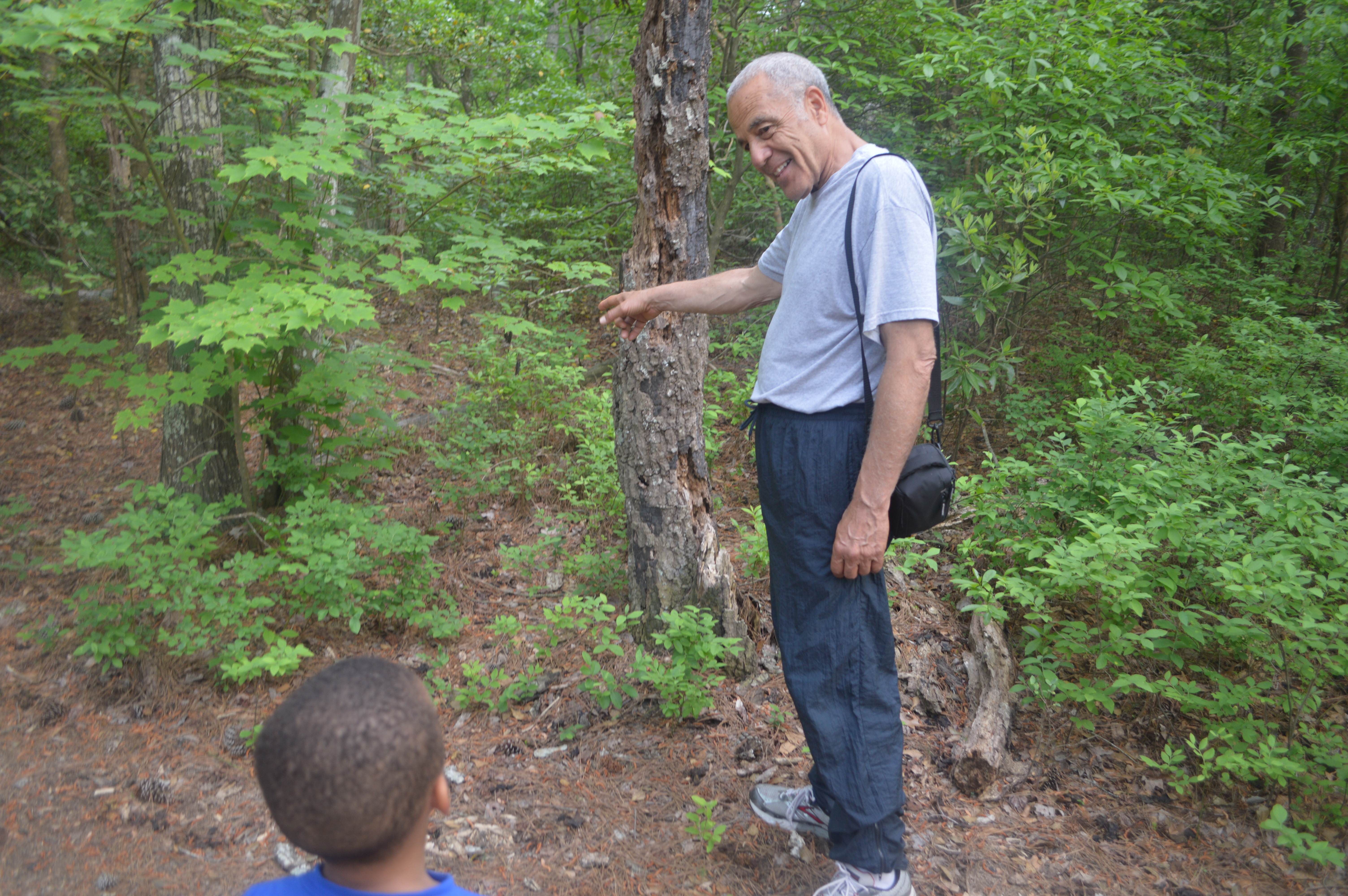 Grandfather shows grandson nature at First Landing State Park